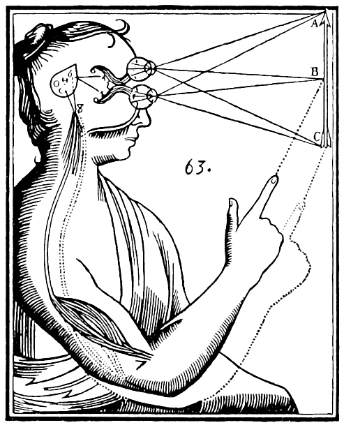 Drawing from René Descartes' (1596-1650) in "Treatise of Man" supposing the function of the pineal gland.